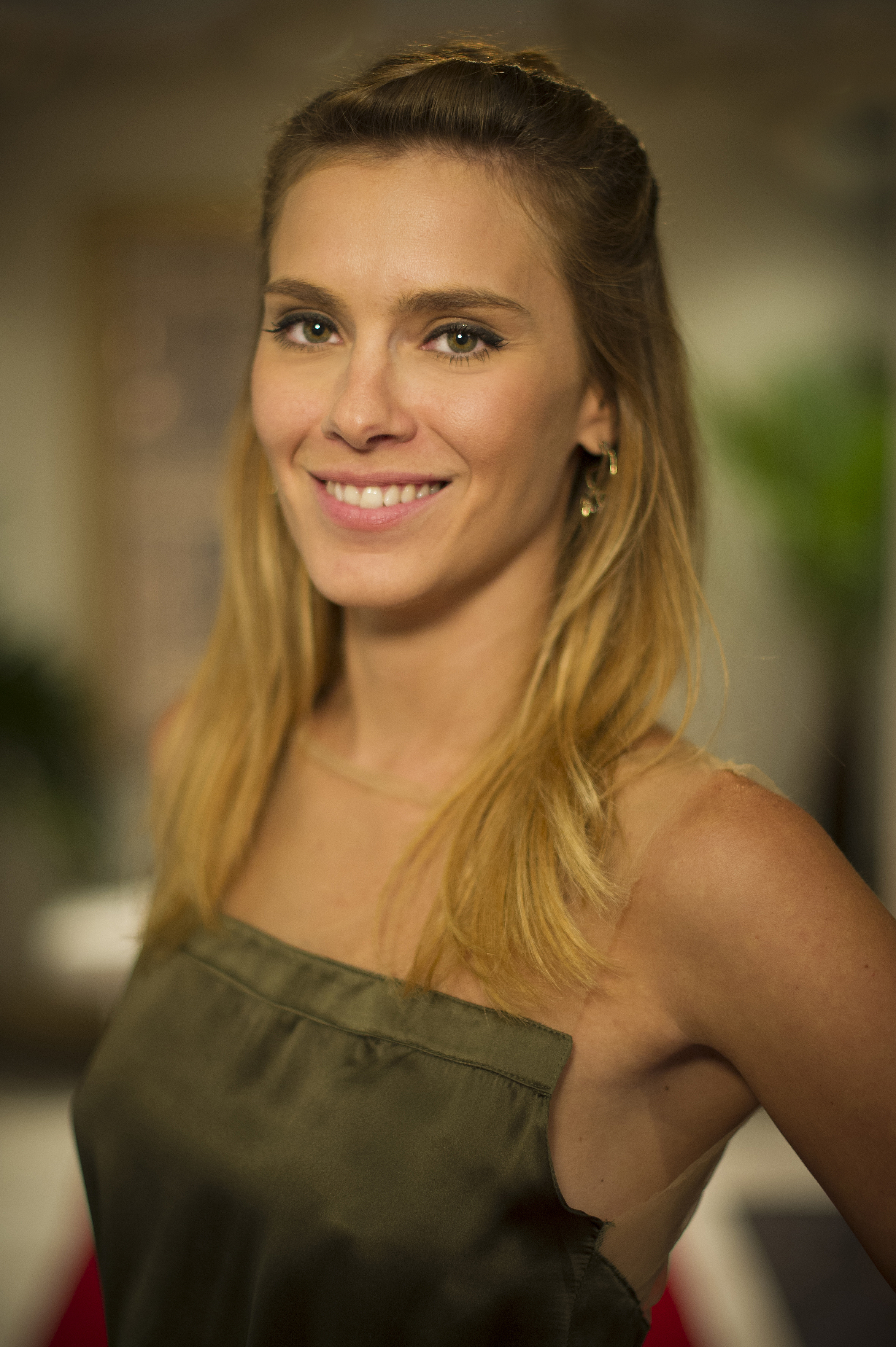 Carolina Dieckmann, brazilian actress and model.